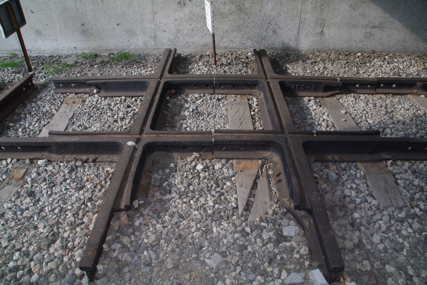 Diamond crossing rail, Sapporo streetcar.